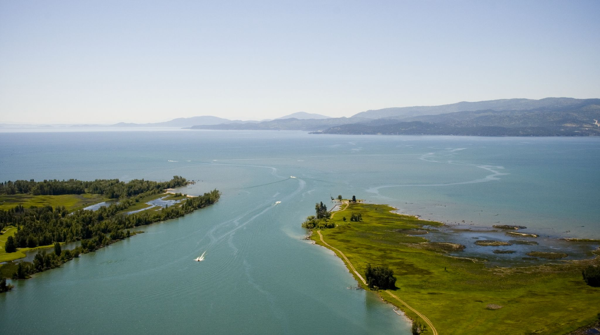 Flathead River empties into the north end of Flathead Lake